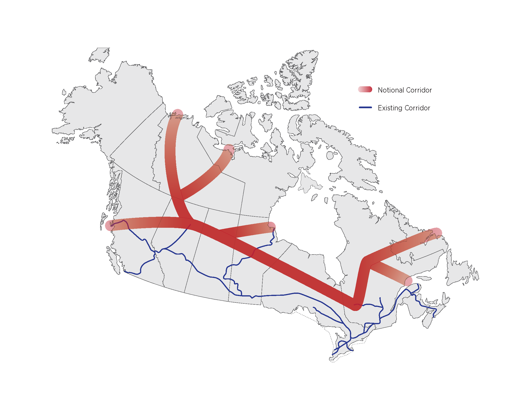 This file represents the notional route for the Canadian Northern Corridor.